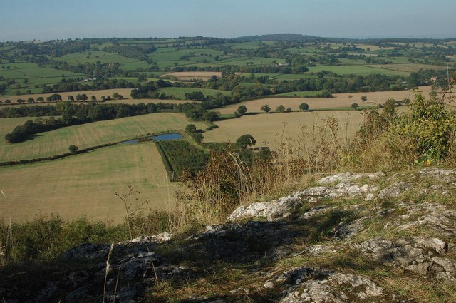 View north west from Ippikin's Rock Rolling Shropshire farmland from Wenlock Edge